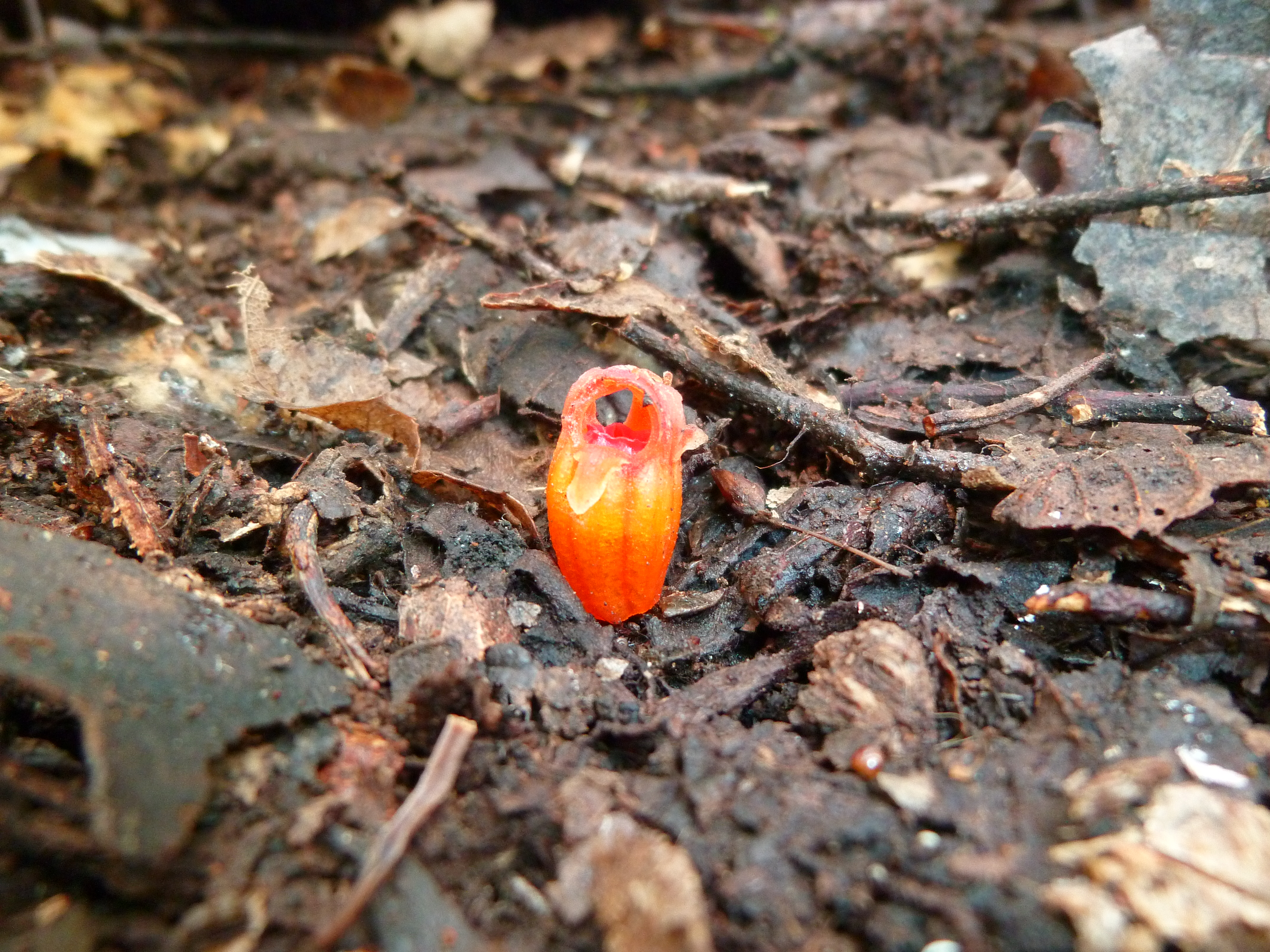 Thismia rodwayi flower found in Tassie